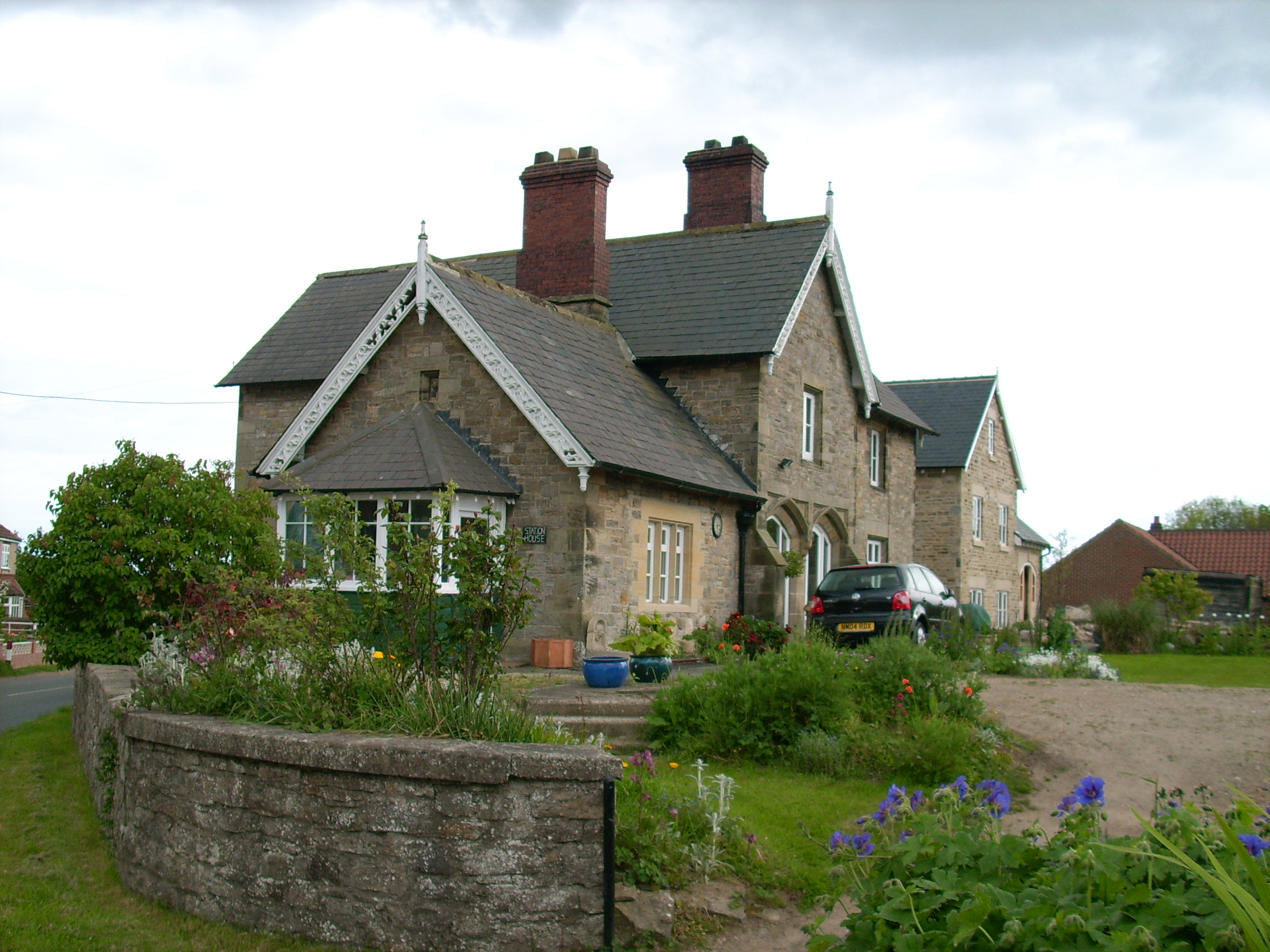 Station house, Scorton railway station.